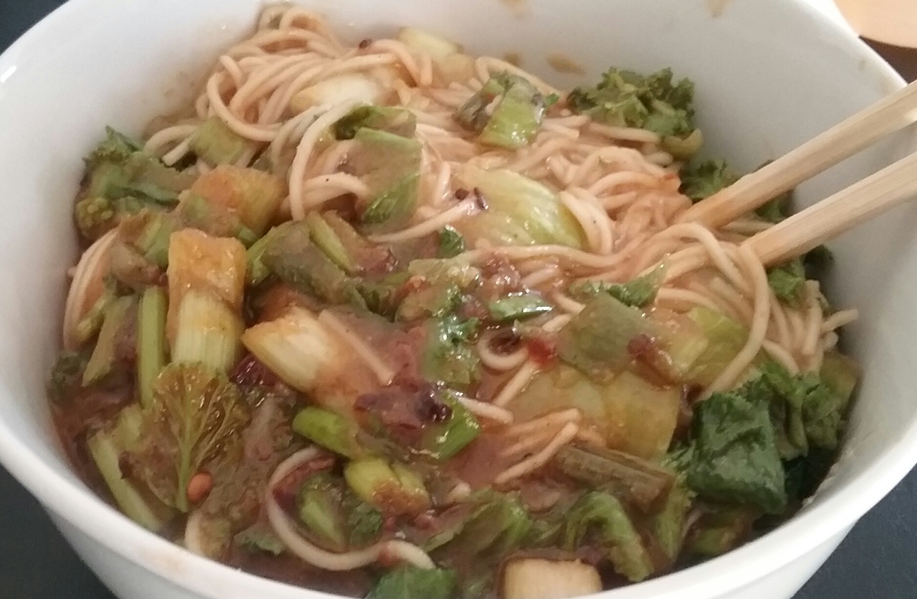 A bowl of Hot & Sour Noodles (酸辣麵). It is a part of Sichuan cuisine. It recipe is from the cookbook Chinese Cuisine: Szechwan Style by Lee Hwa Lin. Published by Chin Chin Publishing Co., Ltd. (Taipei, Taiwan, 1993).